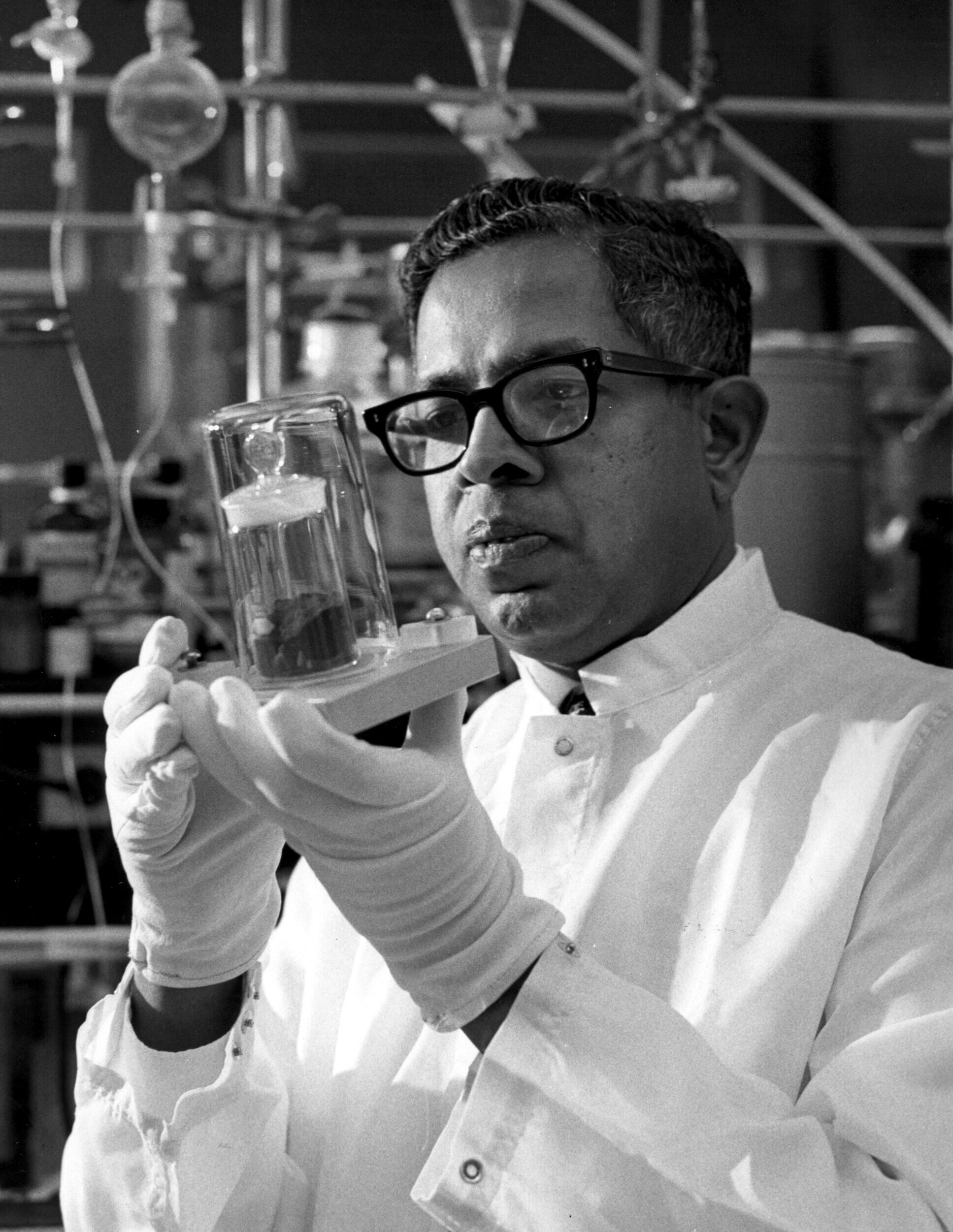 Dr. Cyril Ponnamperuma analyzing a moon sample - Principal investigator for the chemical studies is Dr. Cyril Ponnamperuma, Chief of the Ames Chemical Evolution Branch at NASA.